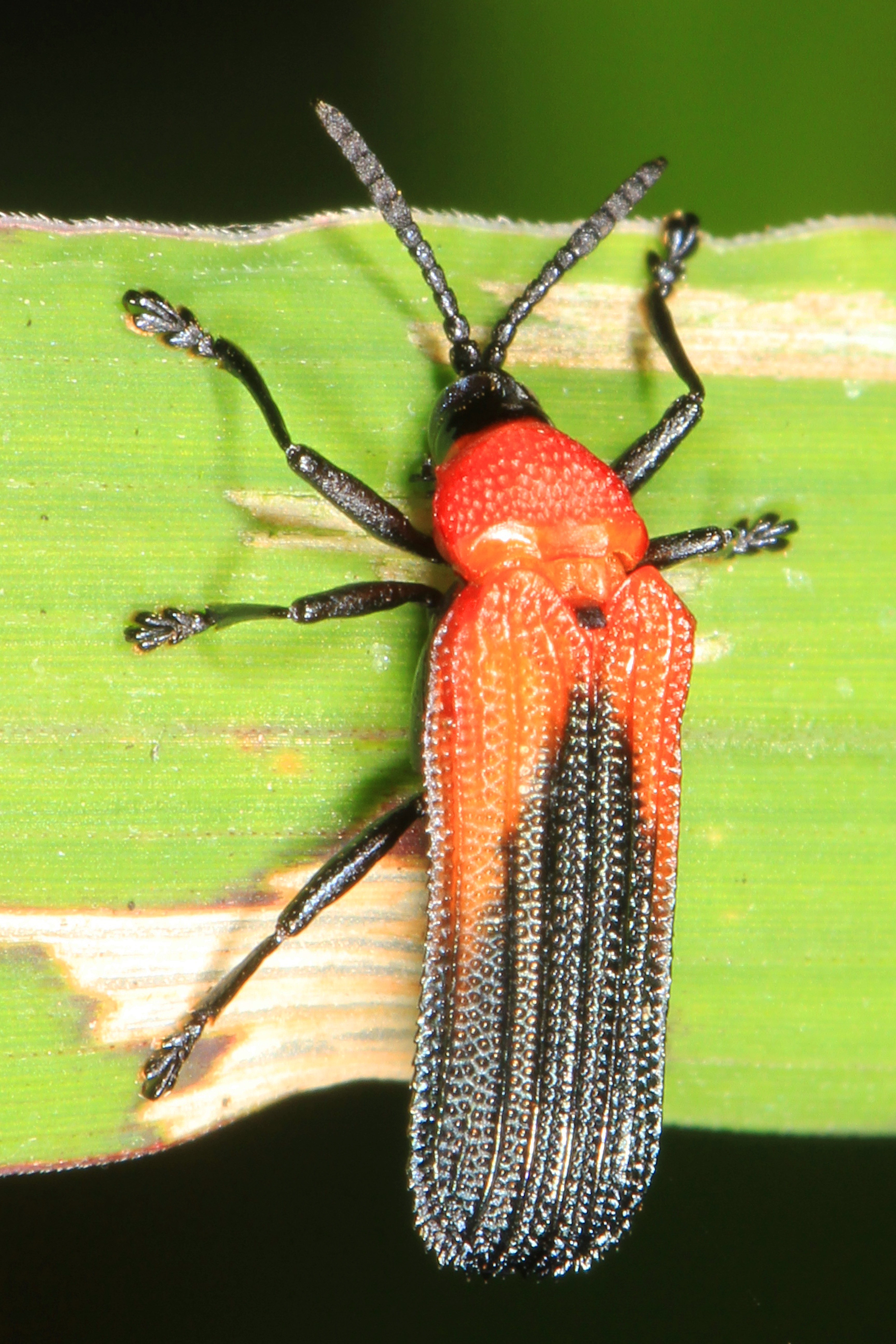 Leaf Beetle - Chalepus sanguinicollis, Dinner Island Ranch Wildlife Management Area, Hendry County, Florida.